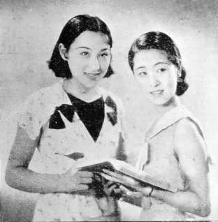 Yumeko Aizome (left) and Kinuyo Tanaka in the 1934 film Machi no bōfū